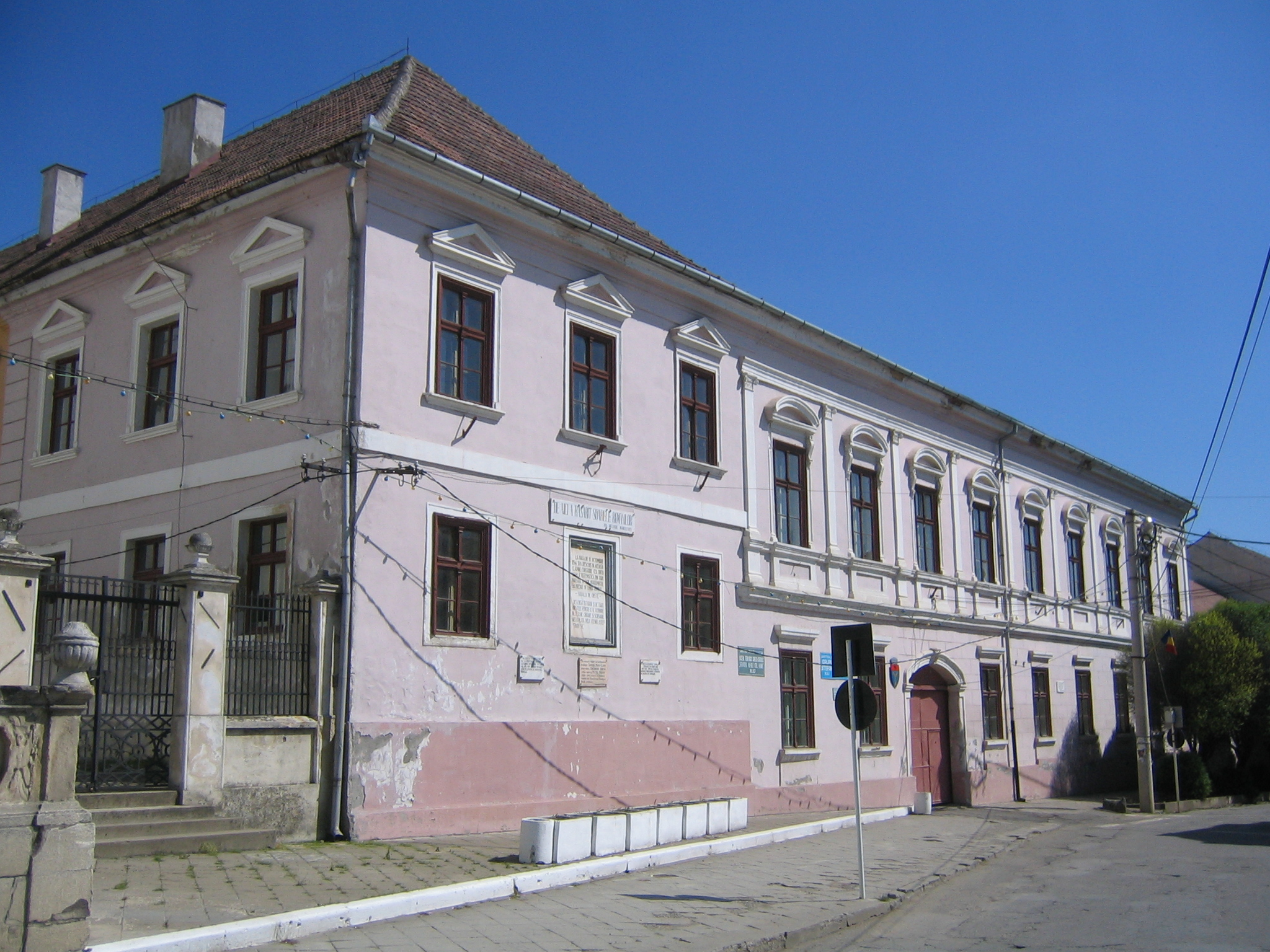 The first Romanian school, Blaj